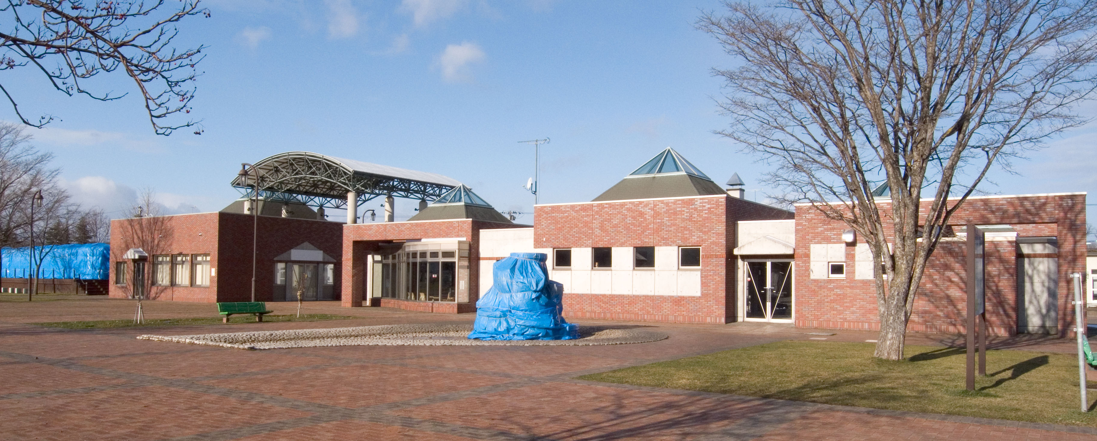 Roadside station Okoppe, Okoppe, Hokkaido, Japan